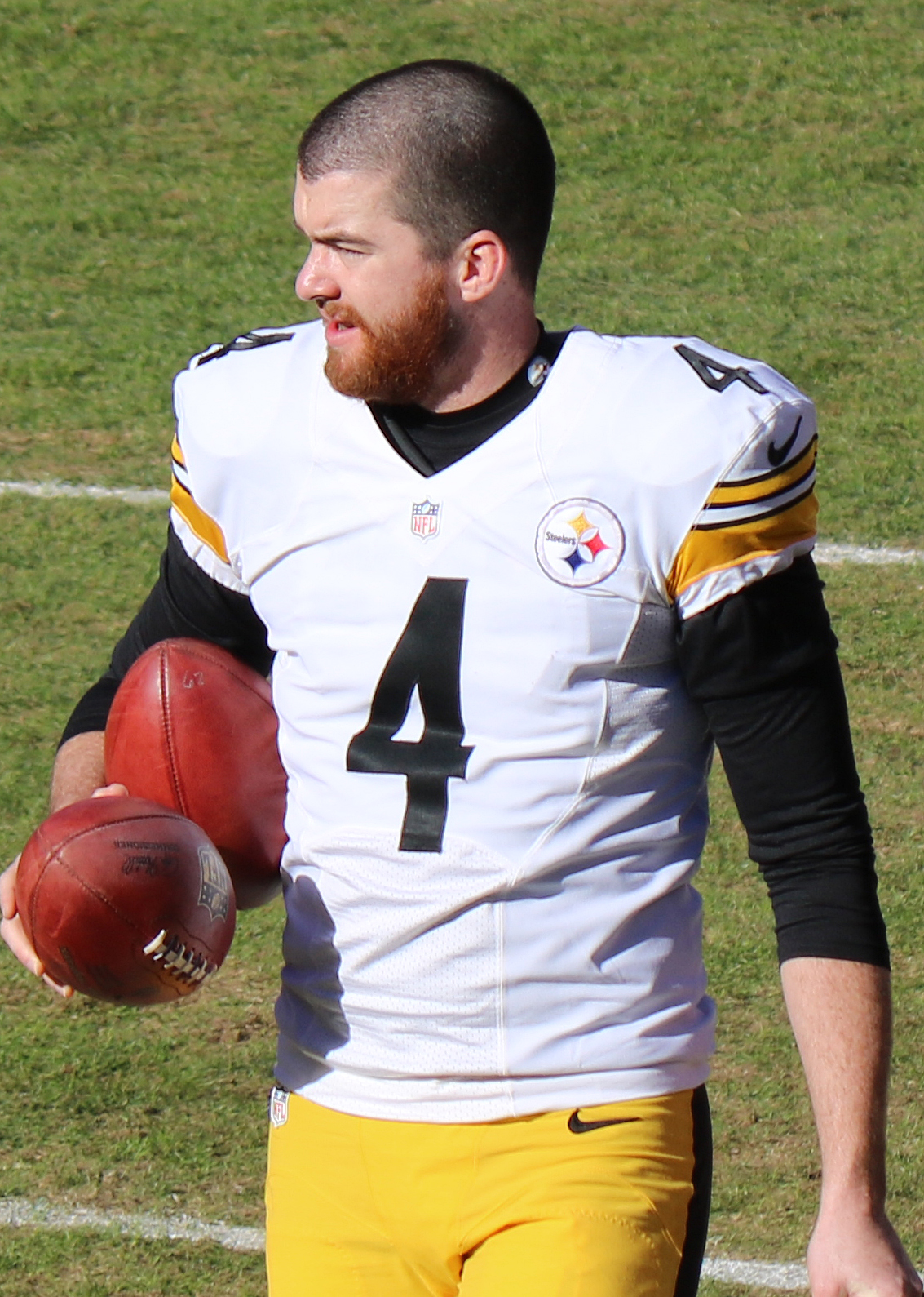 Jordan Berry, a player on the National Football League.